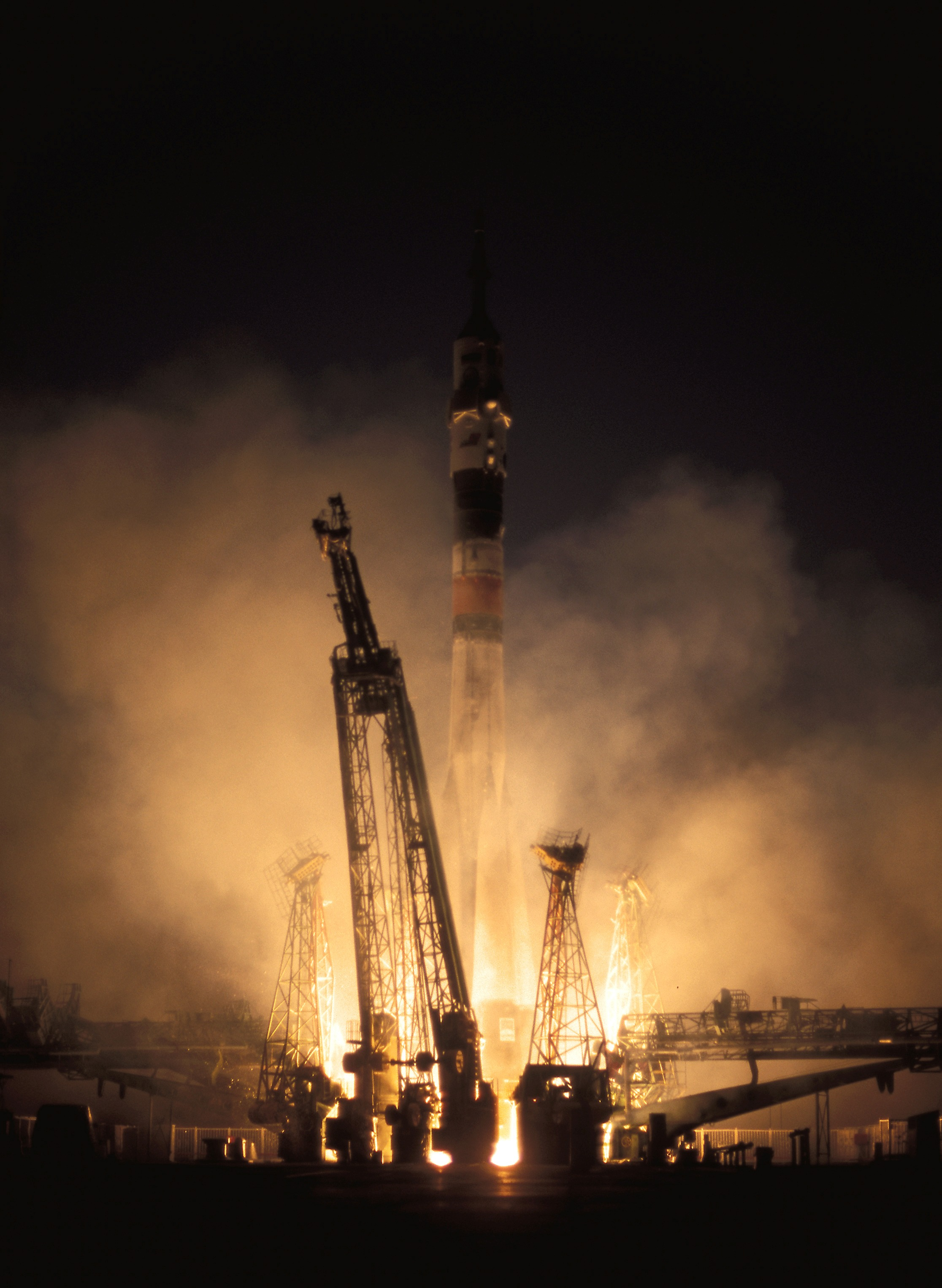 Soyuz TMA-6 spacecraft blasts off from the Baikonur Cosmodrome in Kazakhstan at daybreak, carrying cosmonaut Sergei Krikalev (Exp 11 commander); astronaut John Phillips (NASA science officer and flight engineer); and European Space Agency astronaut Roberto Vittori of Italy for a two-day trip to the International Space Station